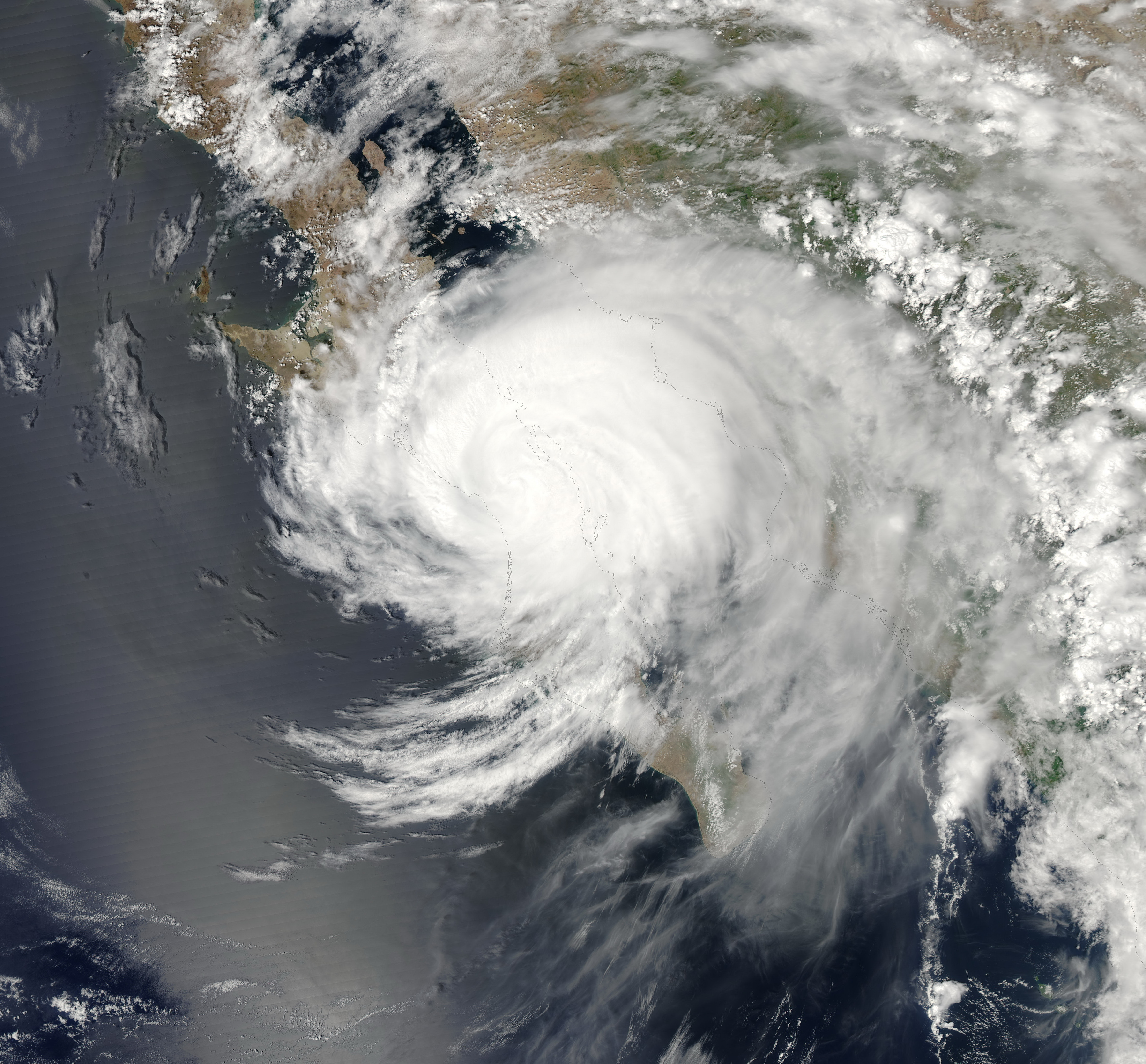 Jimena as a weak hurricane inland Baja California.